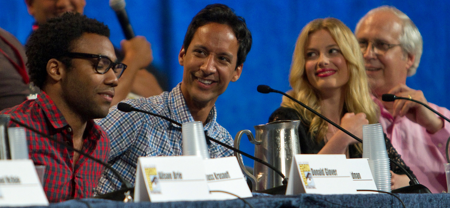 Donald Glover, Danny Pudi, Gillian Jacobs, and Chevy Chase at a San Diego Comic-Con panel for Community in July 2010.